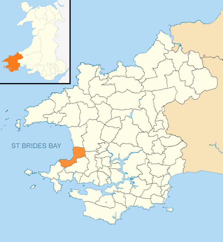 Location map of the community (civil parish) of The Havens on the coast of Pembrokeshire, Wales. It includes Broad Haven and Little Haven.